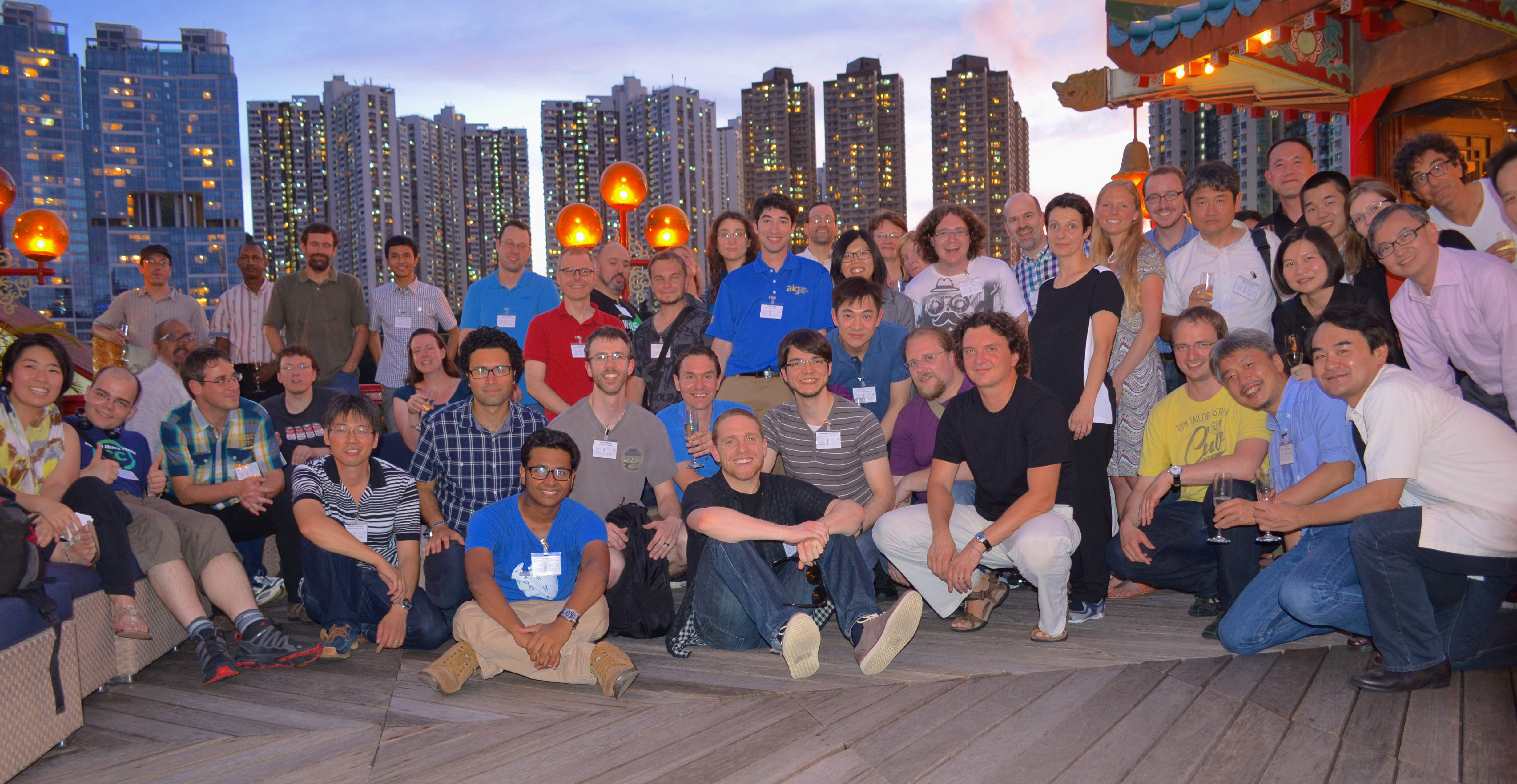 Group Photo of participants of WikiSym+OpenSym2013, Hong Kong on the top deck restaurant of Jumbo Island